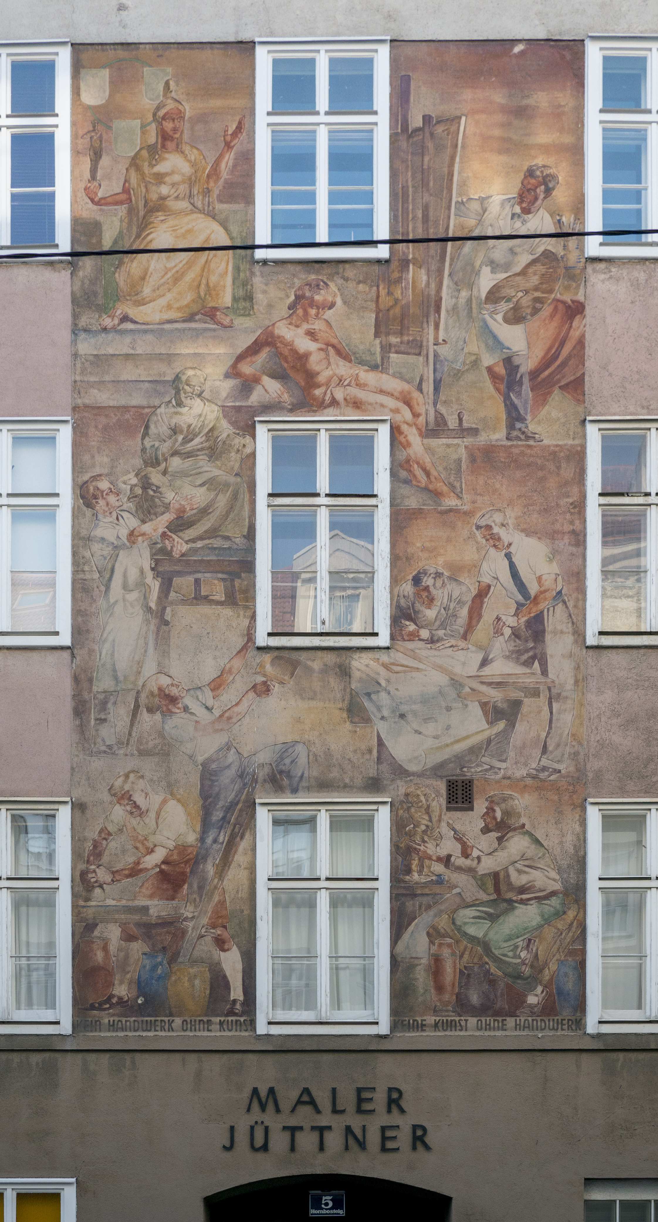 Fassadenfresko "Kunst und Kunsthandwerk" von Artur Brusenbauch (1933).